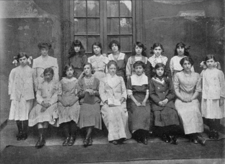 Leopoldina Maluschka Maly de Trupp (1862-1954) with her class of musical history in National Conservatory of Chile